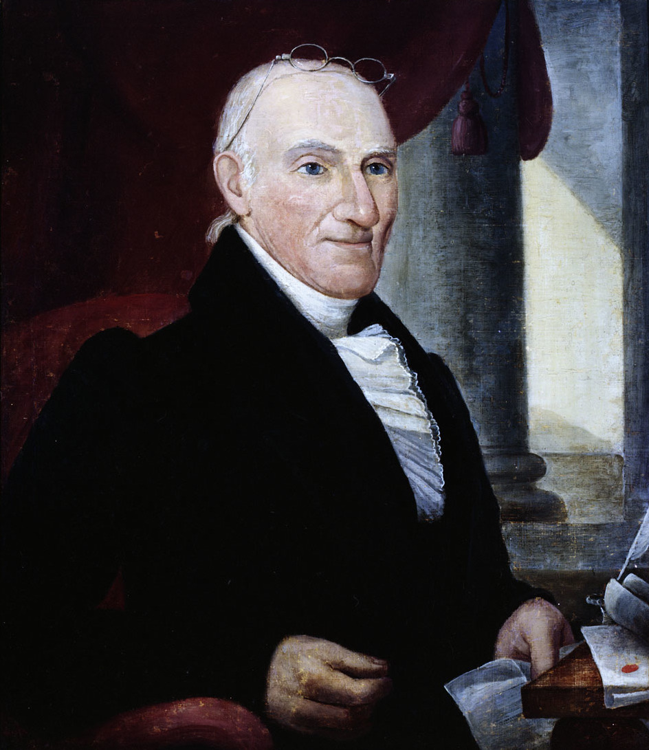 . Scan of out-of-copyright image from